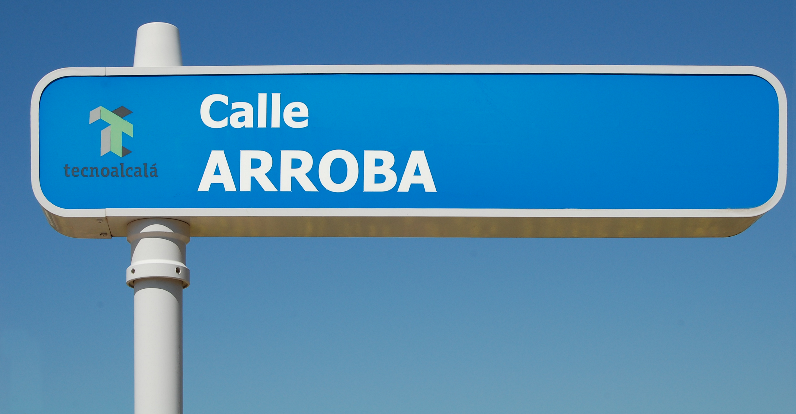 Street sign dedicated to At sign, in Alcalá de Henares (Community of Madrid - Spain).